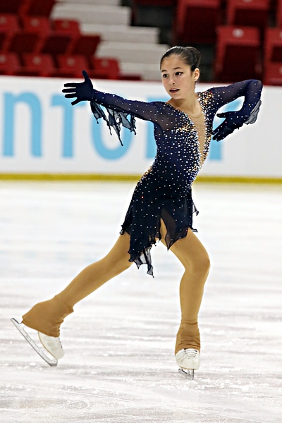 Alysa Liu at the 2019 JGP Lake Placid - SP